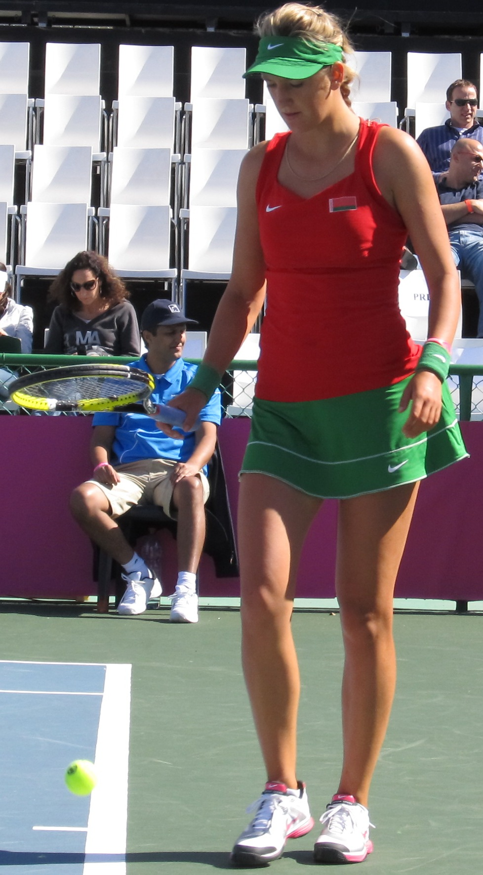 The tennis player Victoria Azarenka of Belarus during her match against Sybille Bammer of Austria in the 1st day of Fed Cup Group I 2011 Europe/ Africa in Eilat, Israel